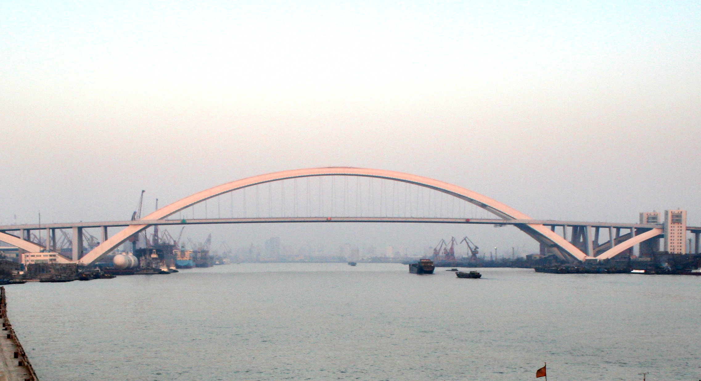 Bridge of Lupu over the Huangpu river in Shanghai (China)